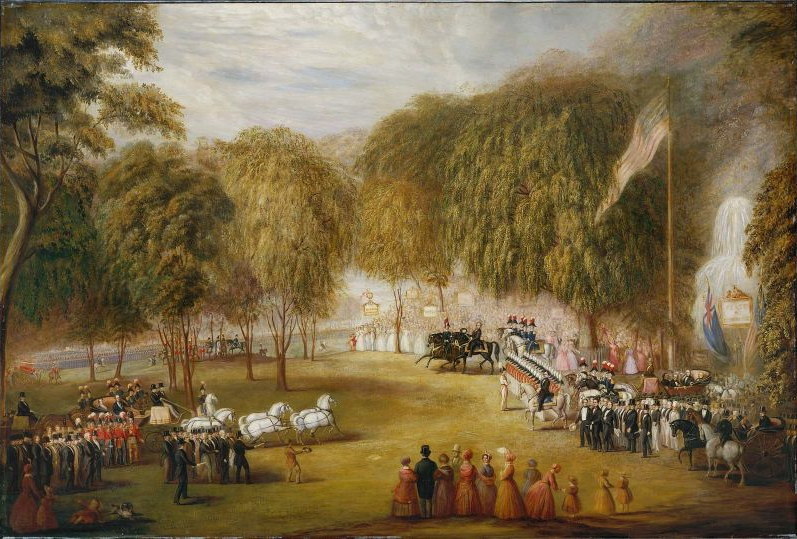 Railroad Jubilee on Boston Common. 1851. William Sharp, American (born in England), 1803–1875. 99.69 x 147.64 cm (39 1/4 x 58 1/8 in.). Oil on canvas. Classification: Paintings. Museum of Fine Arts, Boston.